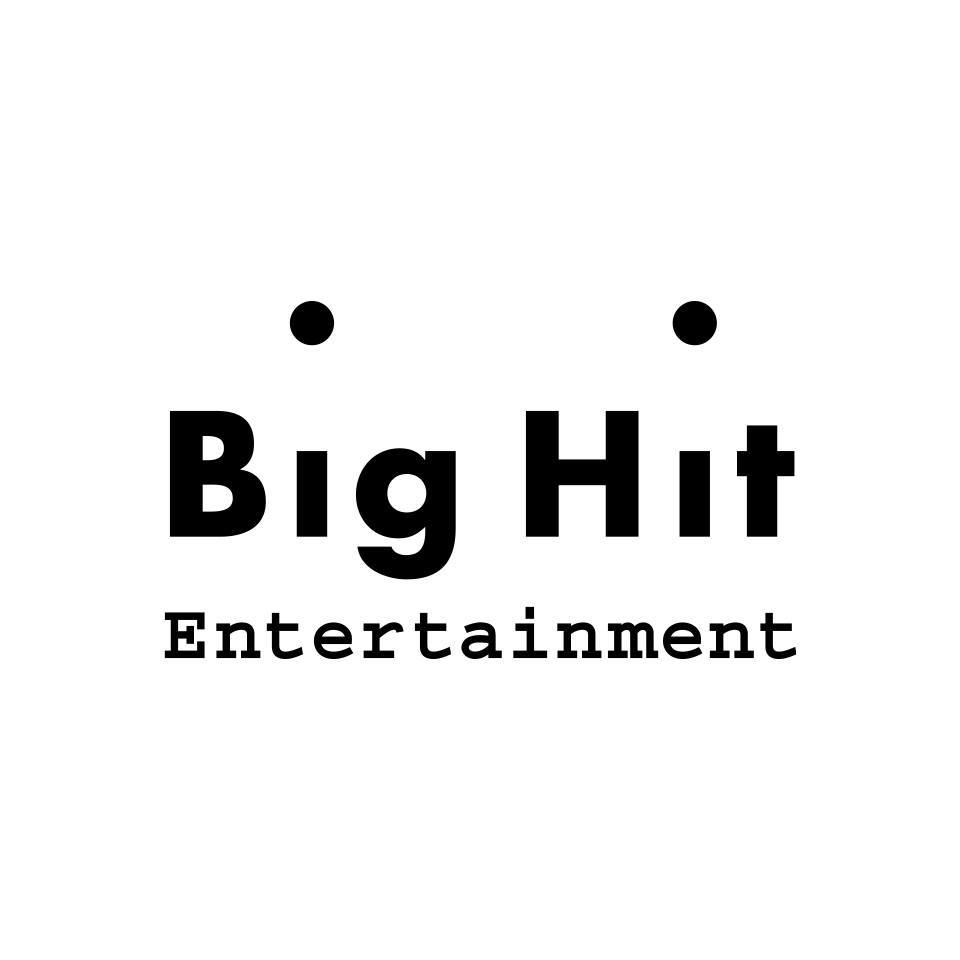 Big Hit Entertainment company logo with background.